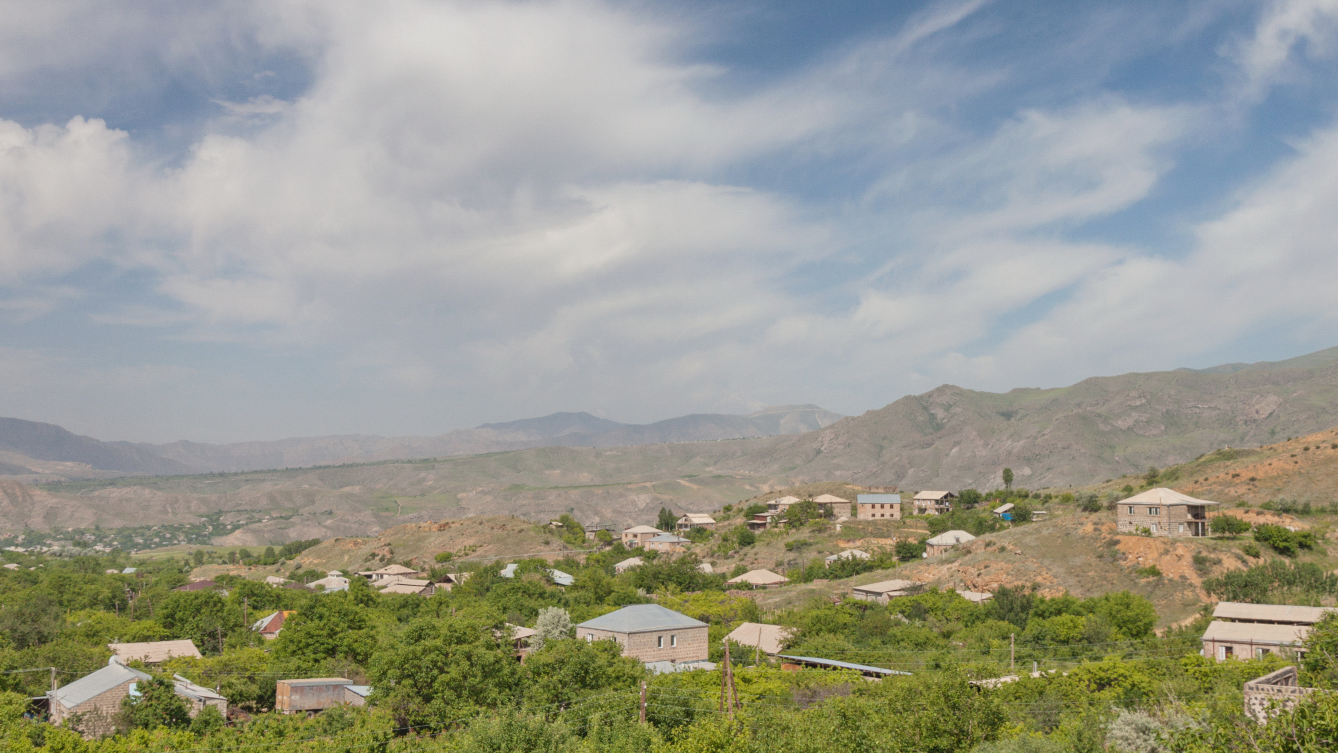 A view of the village from the road H47. Gladzor, Vayots Dzor Province, Armenia.